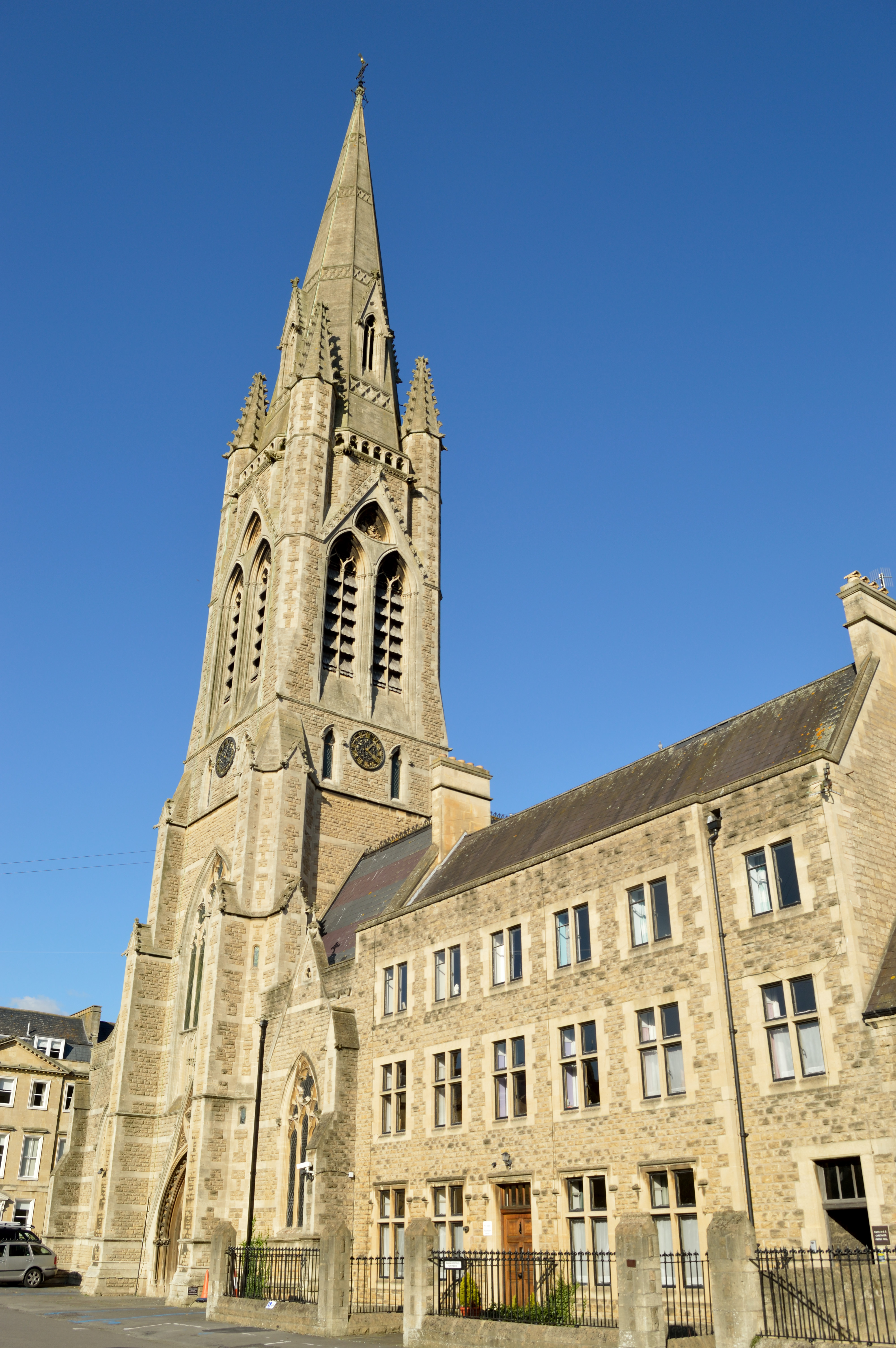 Saint John the Evangelist Church, Bath, with parish hall and office to the right.